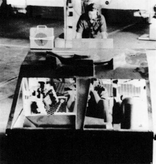 A tank compartment trainer allows students to learn driving techniques for the M60A1 tank without ever entering the actual vehicle.